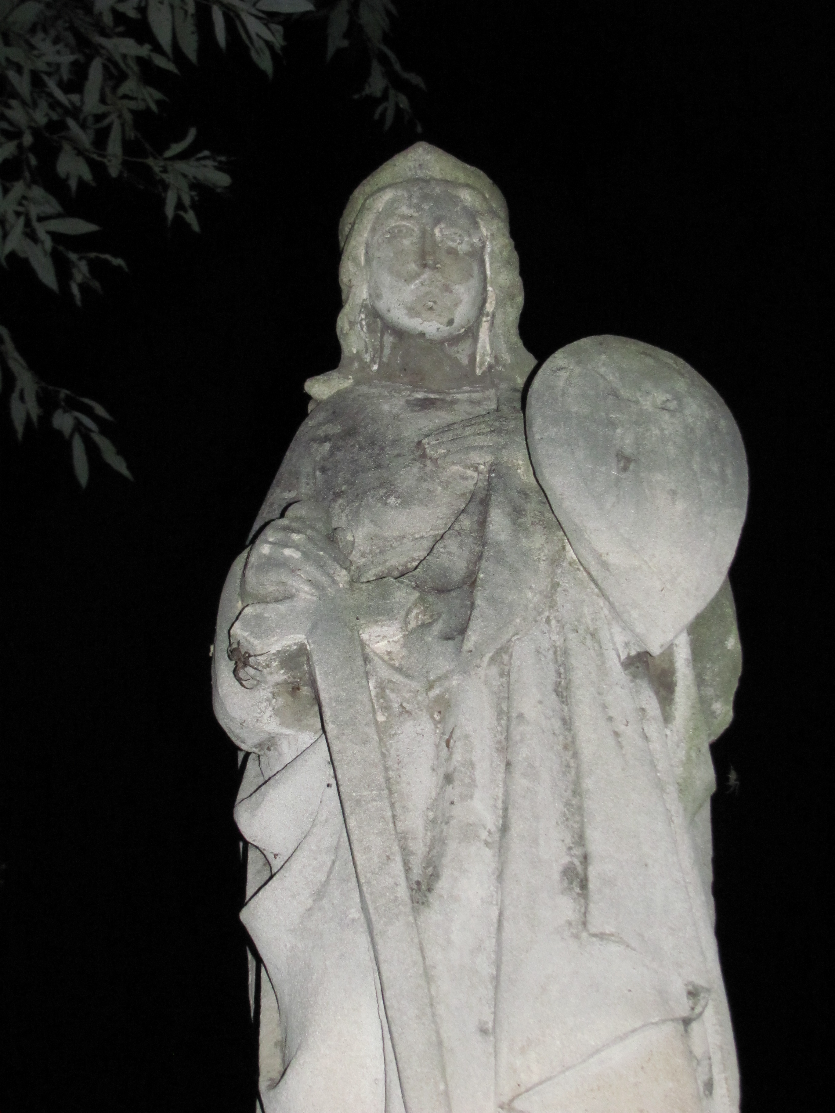 Zamek Radomyśl. Rzeźba św. Michała (XVII w.).